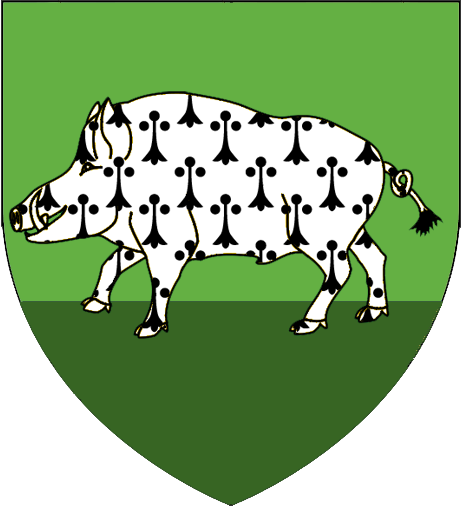 Arms of the Royal O'Hanlon dynasty who rule the Kingdom of Airghialla.